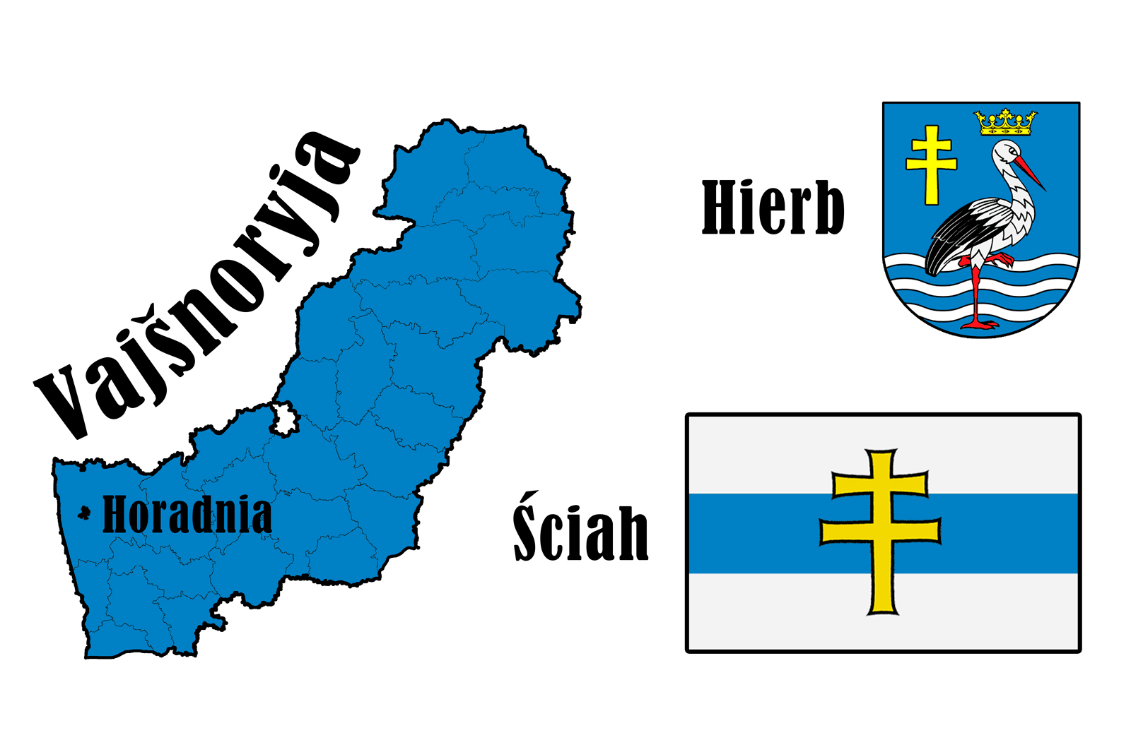 Warning: This flag and coat of arms are not specified in "Zapad 2017". These are fictional symbols of the fictional republic "Veyshnoria" (Russian: Вейшнория), that served enemy state in the military exercise "Zapad 2017".Беларуская (тарашкевіца): Дэкляраваная тэрыторыя, герб і сьцяг выдуманай рэспублікі «Вайшнорыя» (рус. Вейшнория), умоўнага ворага ў вайсковых вучэньнях «Захад-2017».